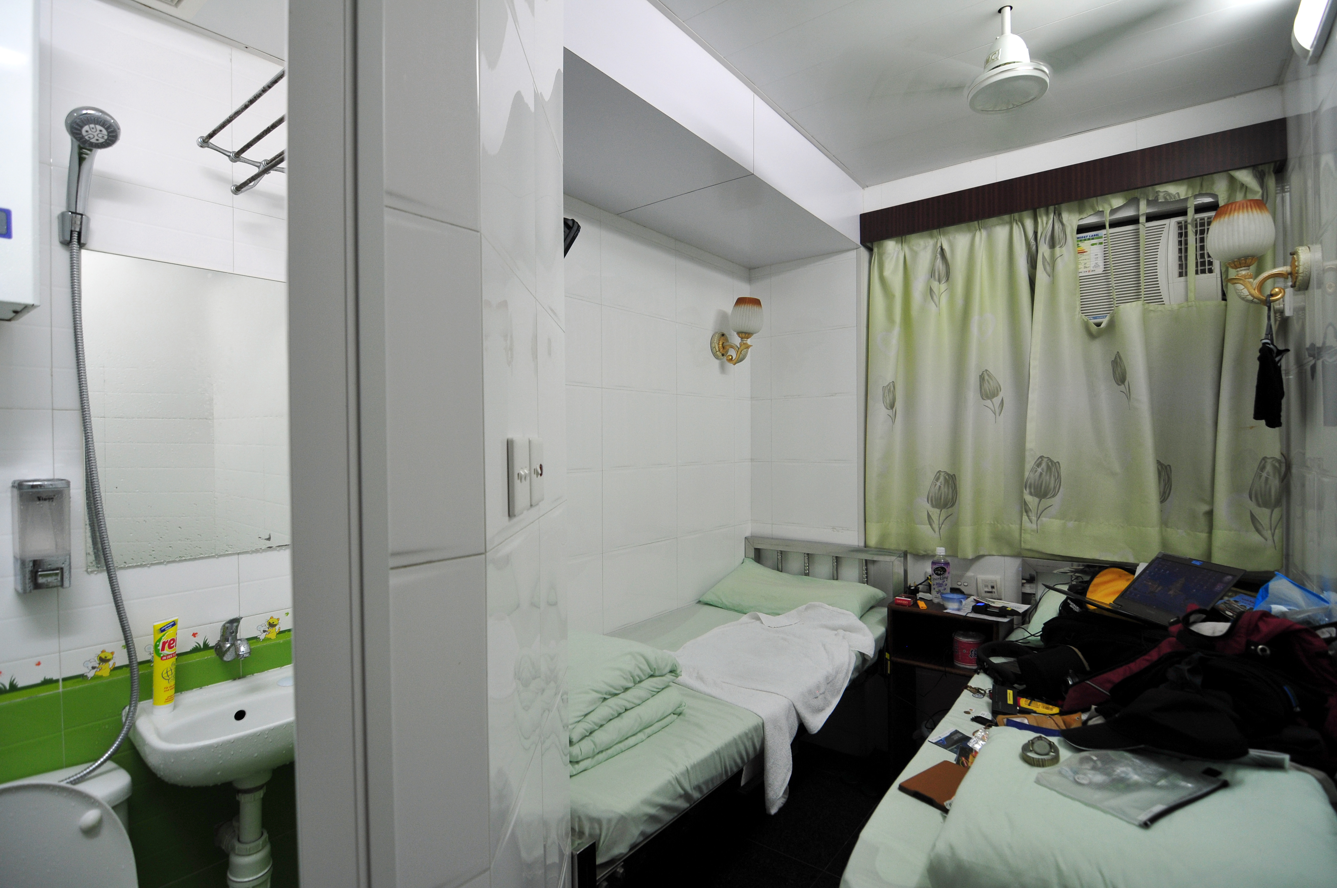 Room in a guesthouse in Chungking Mansions, Hong Kong